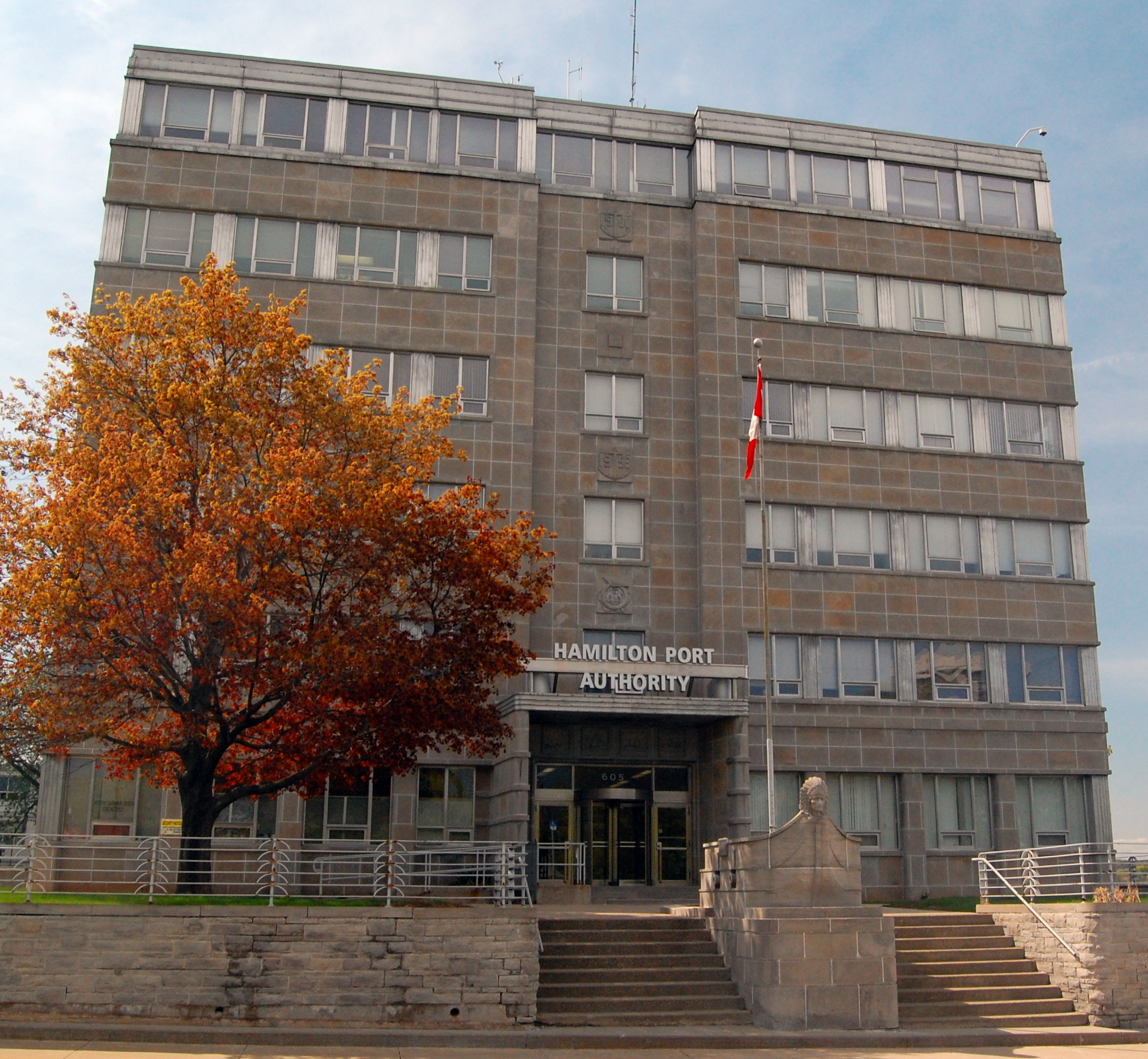 Front of 605 James St North, Hamilton Port Authority Building